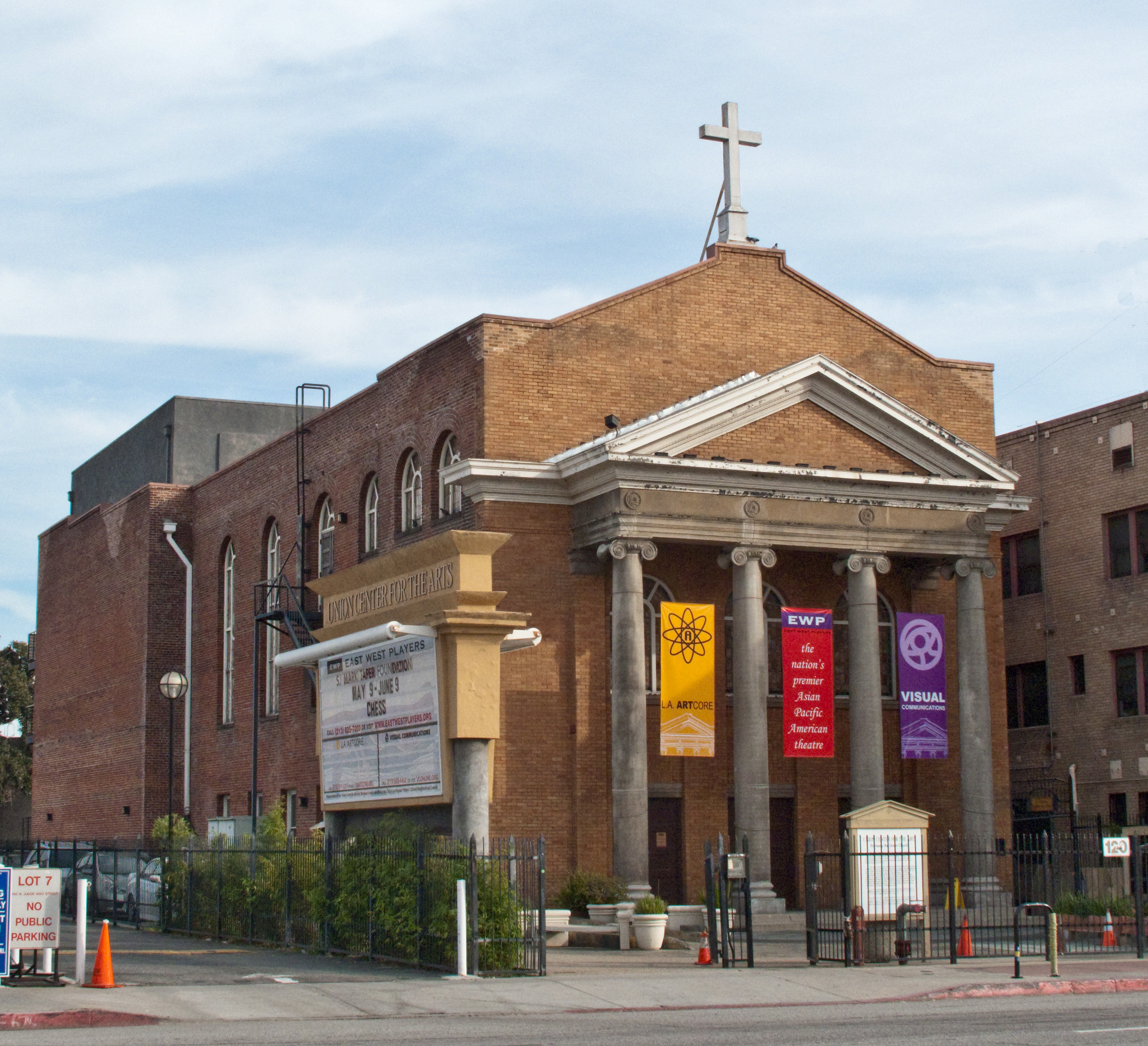 Japanese Union Church of Los Angeles, 120 N. San Pedro St., Los Angeles, California, Los Angeles Historic-Cultural Monument #312. It is now an arts center.